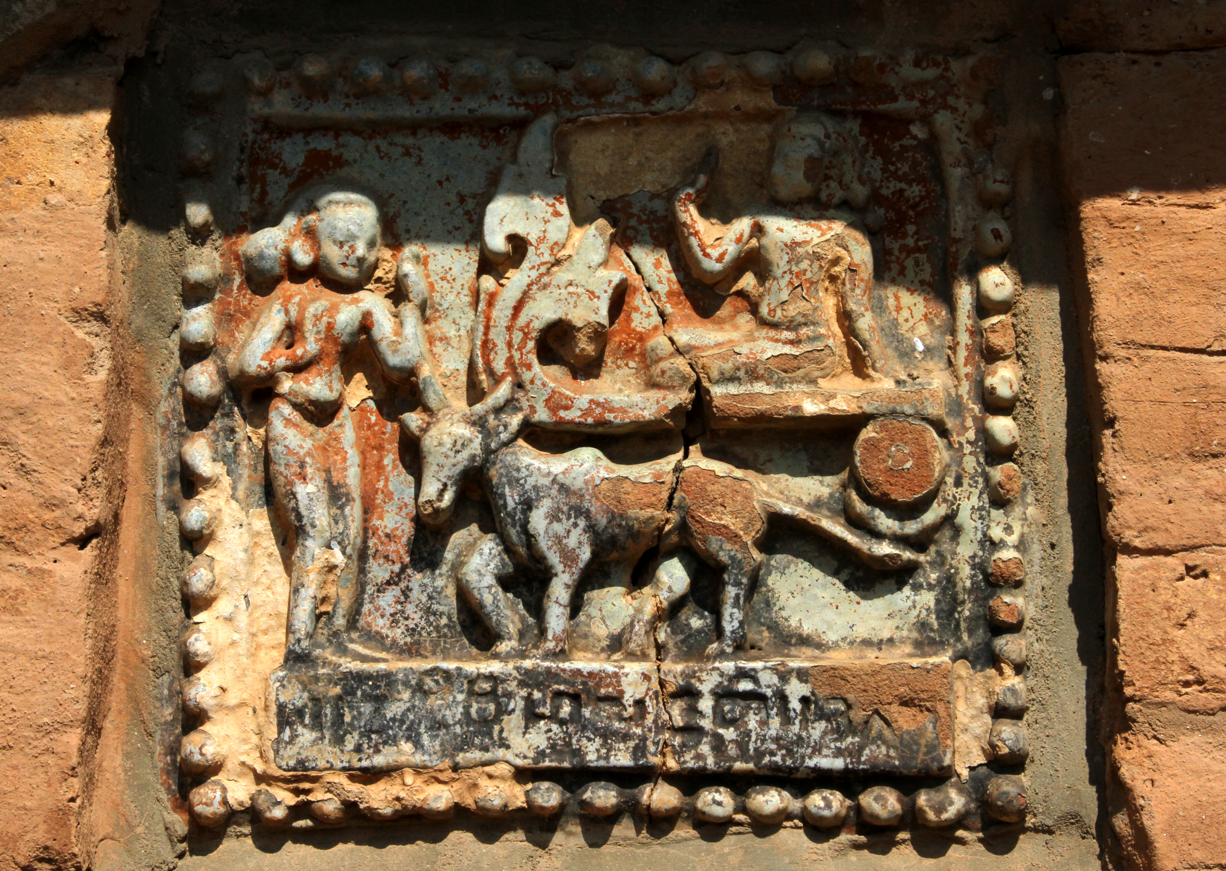 Dhammayazika temple, Bagan, Myanmar.